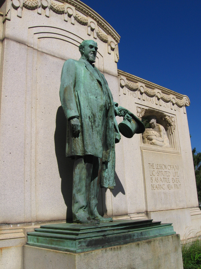 Closeup view of the Thomas Lowry Memorial statue, sculpted by Karl Bitter, in Smith Triangle Park at the intersection of Hennepin Avenue, Emerson Avenue, and 24th Street in Minneapolis, Minnesota. There are two inscriptions, the one on the right side is in view: "The lesson of a public-spirited life is as a tree ever bearing new fruit."